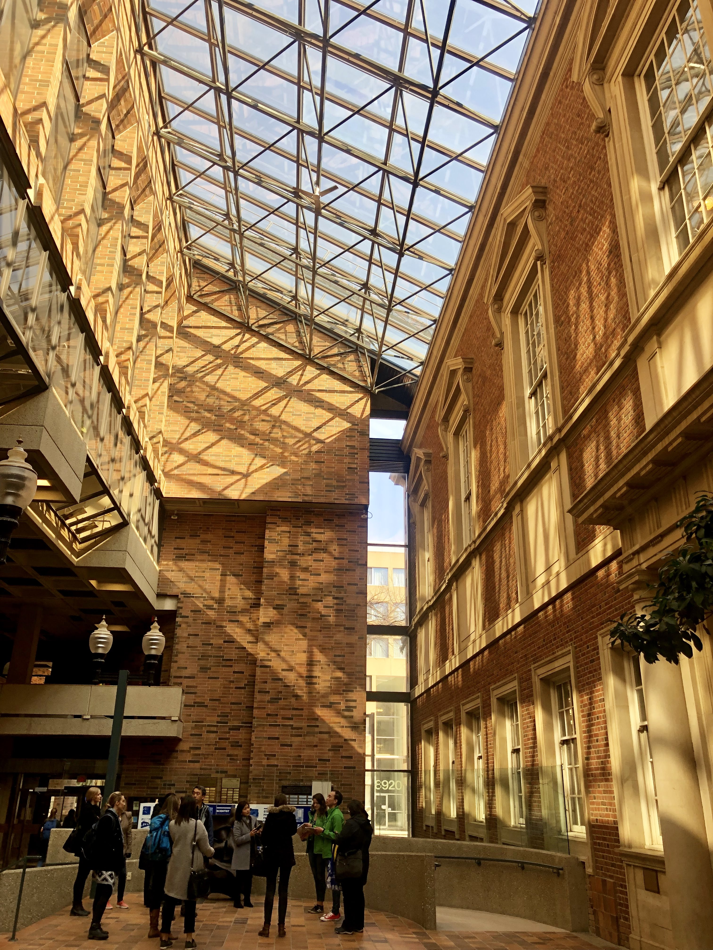 Interior view of Rutherford Library sky-lighted galleria that connects the two buildings.